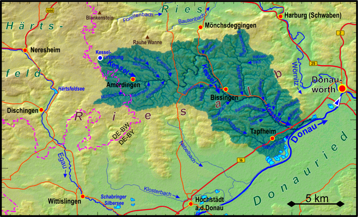 Catchment area of the Kessel river